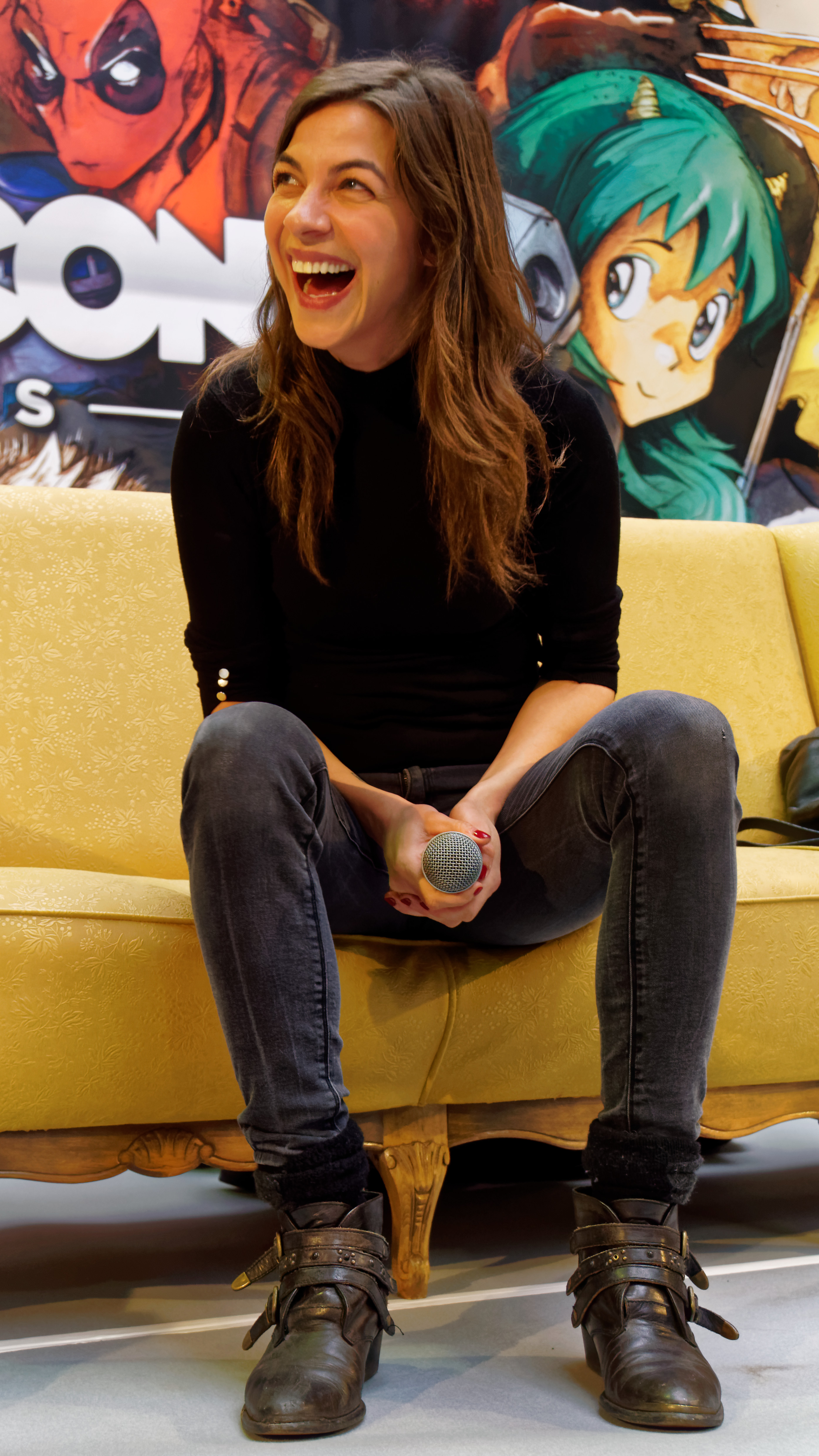 Comic Con Brussels 2016 (CCBX 2016).